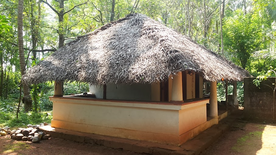 Traditional Hut in Kerala